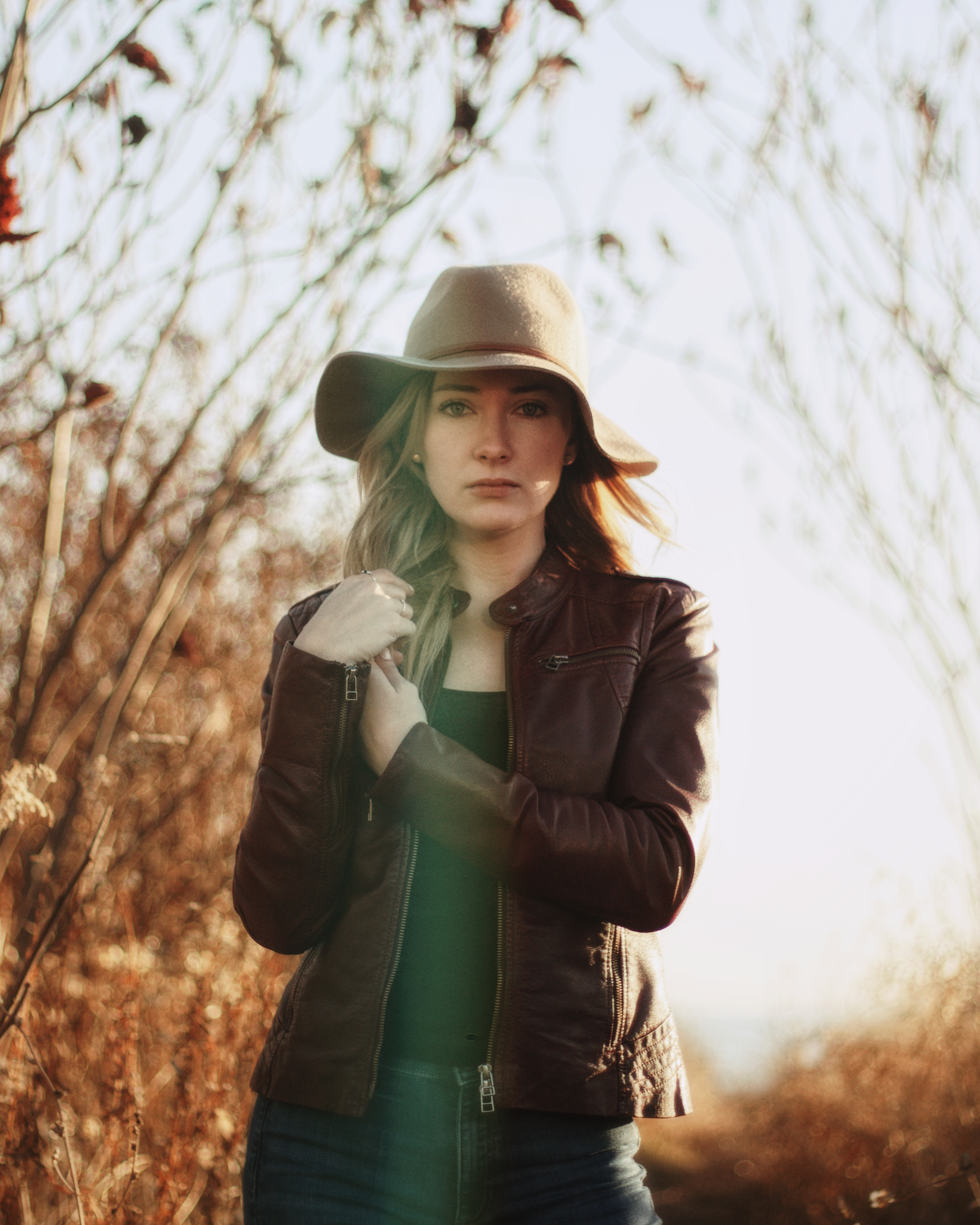 A medium shot of the Canadian actress Samantha Munro taken in late 2017 at Scarborough Bluffs Park, Ontario.